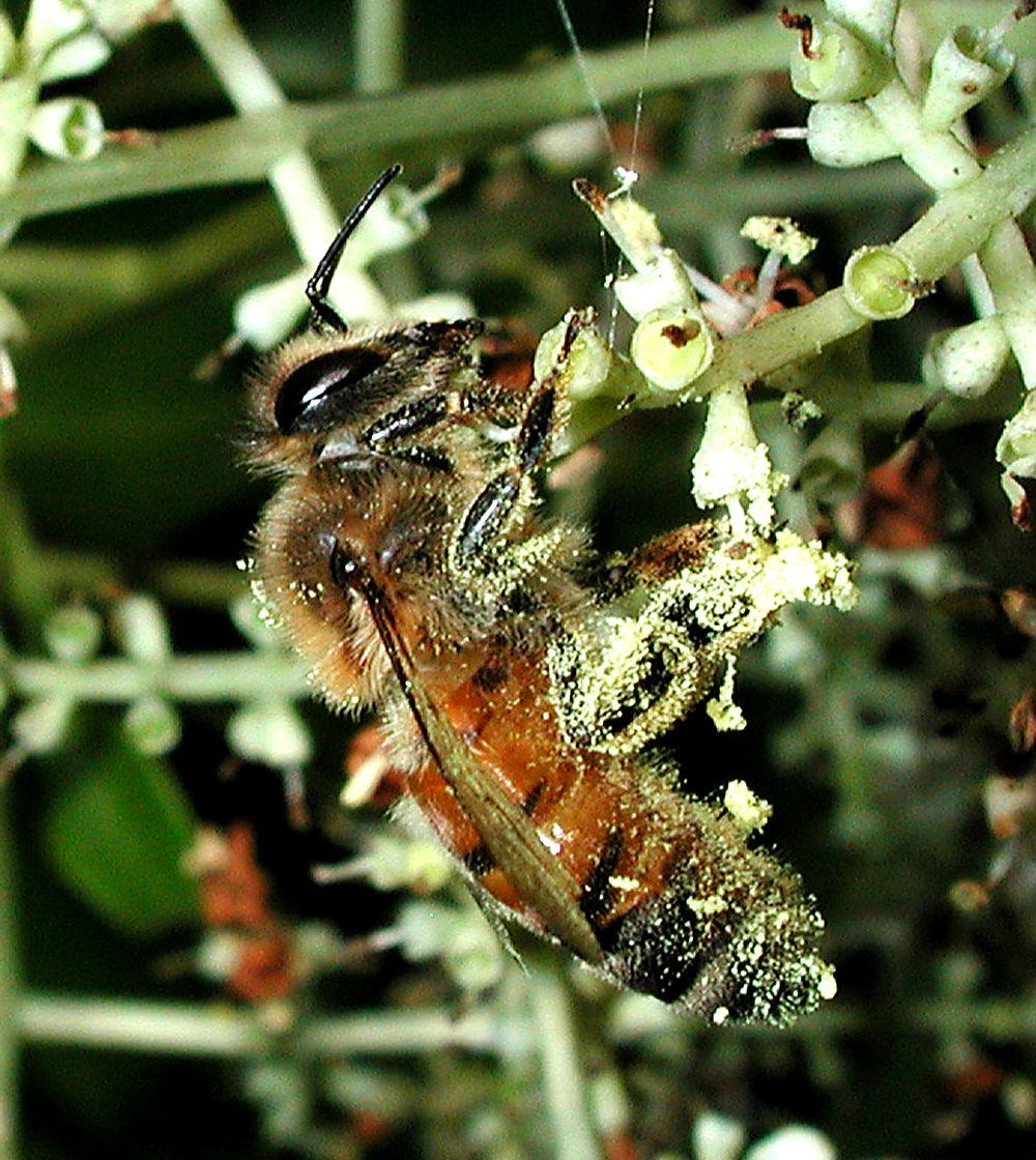 Honeybee adhering pollen